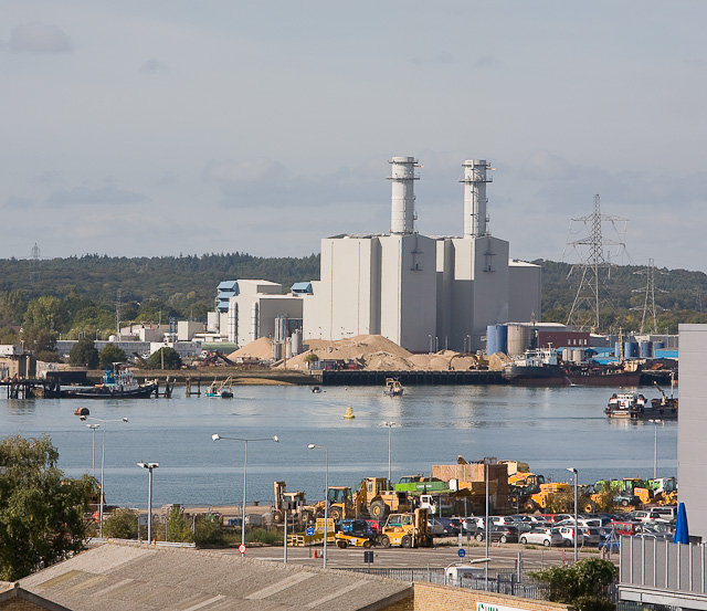 Marchwood Power Station. Seen across the River Test from the top of the IKEA shop. For more information about the power station, see 1107872.